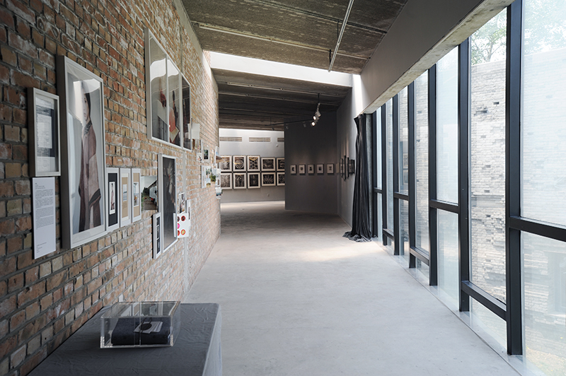 Zhu Lan Qing Installation: 1